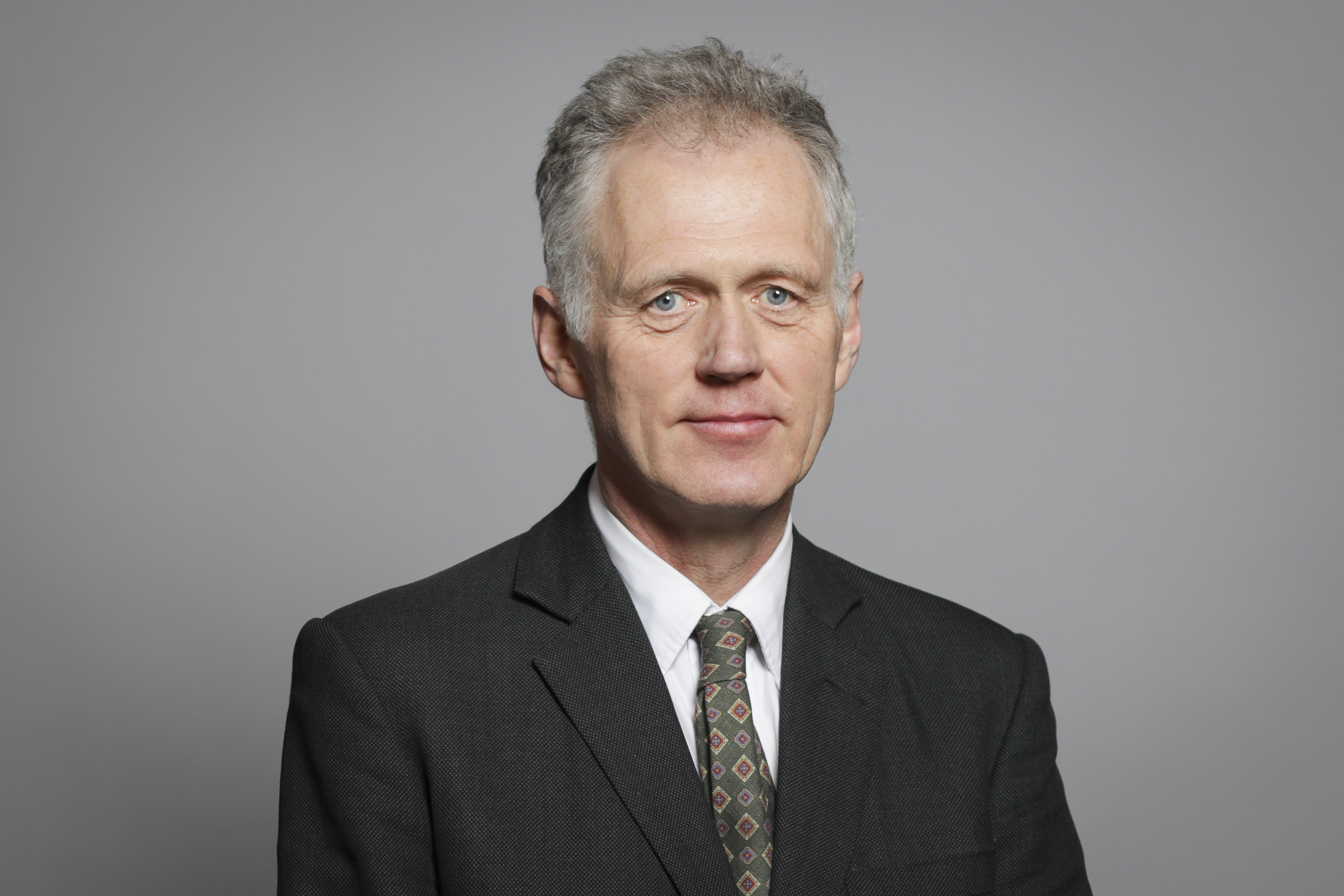 Official portrait of Lord Ponsonby of Shulbrede 3×2 portrait of Lord Ponsonby of Shulbrede